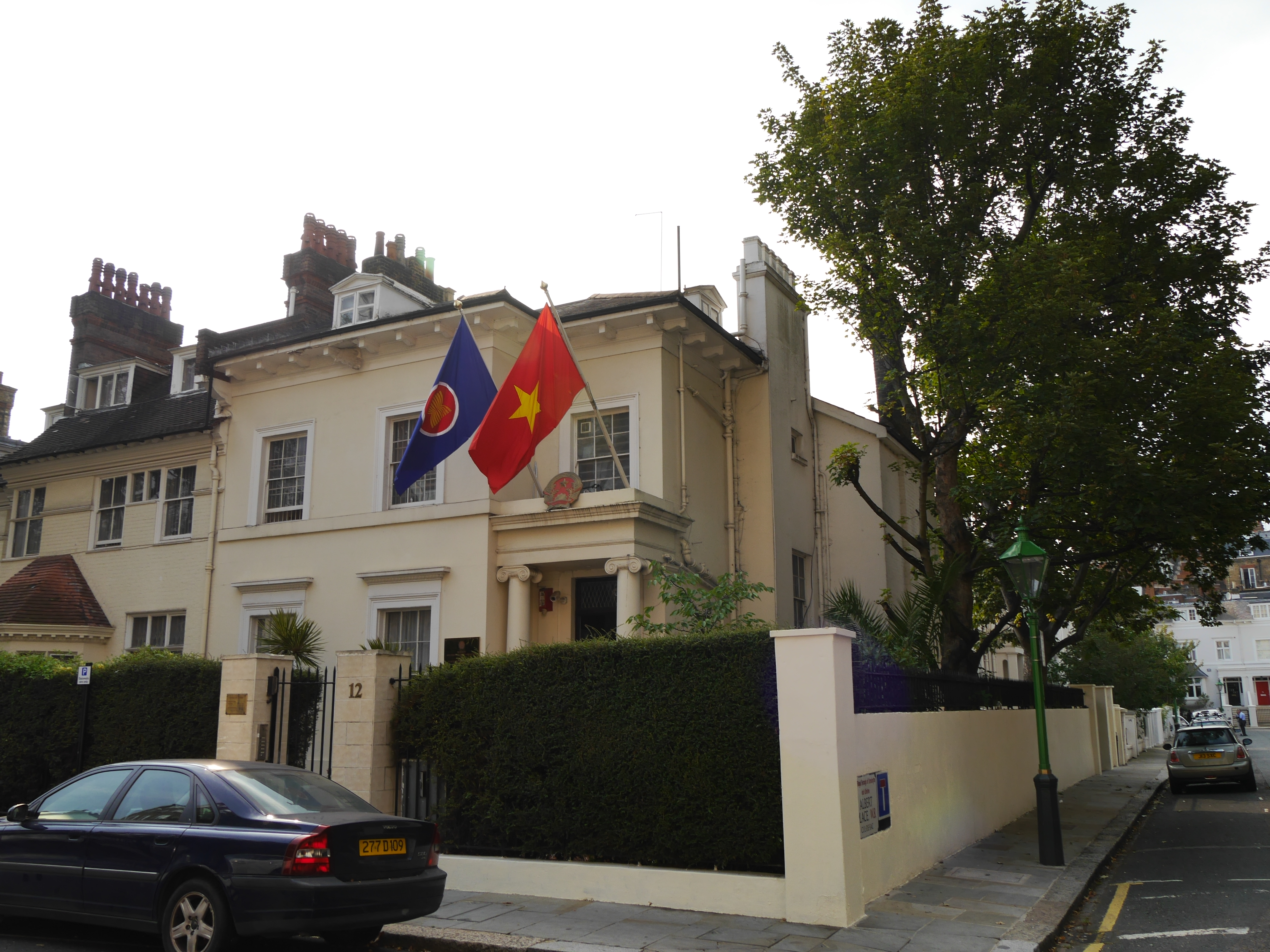 Embassy of Vietnam, London, September 2016